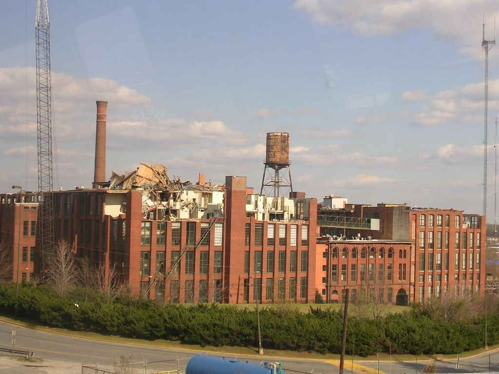 The historic Fulton Bag and Cotton Mills, currently loft condominiums in the Cabbagetown neighborhood (a National Register of Historic Places district) of Atlanta, Georgia. This image shows the damage from the 2008 Atlanta tornado outbreak. Picture taken from a moving Metropolitan Atlanta Rapid Transit Authority train. 33°45′2″N 84°22′12″W / 33.75056°N 84.37°W